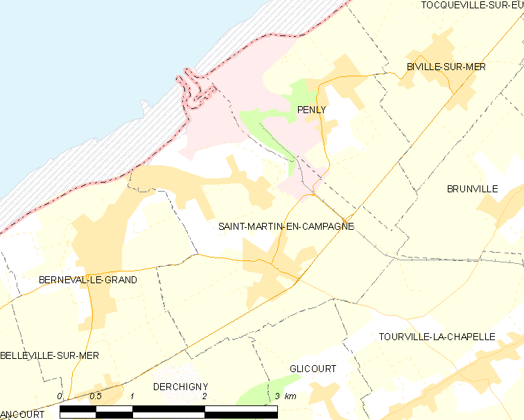 Map of French municipality Saint-Martin-en-Campagne